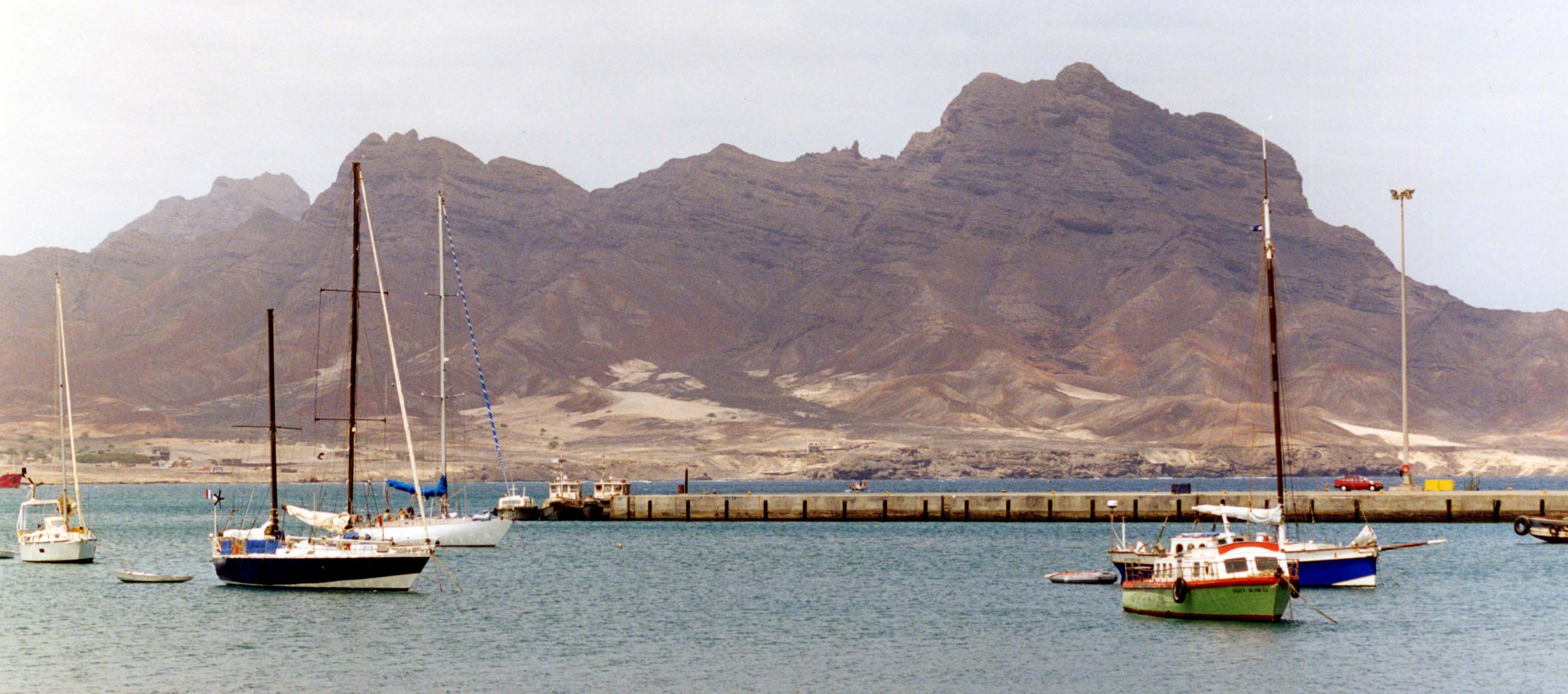 Partial view of Porto Grande alongside Monte Cara in August 2000